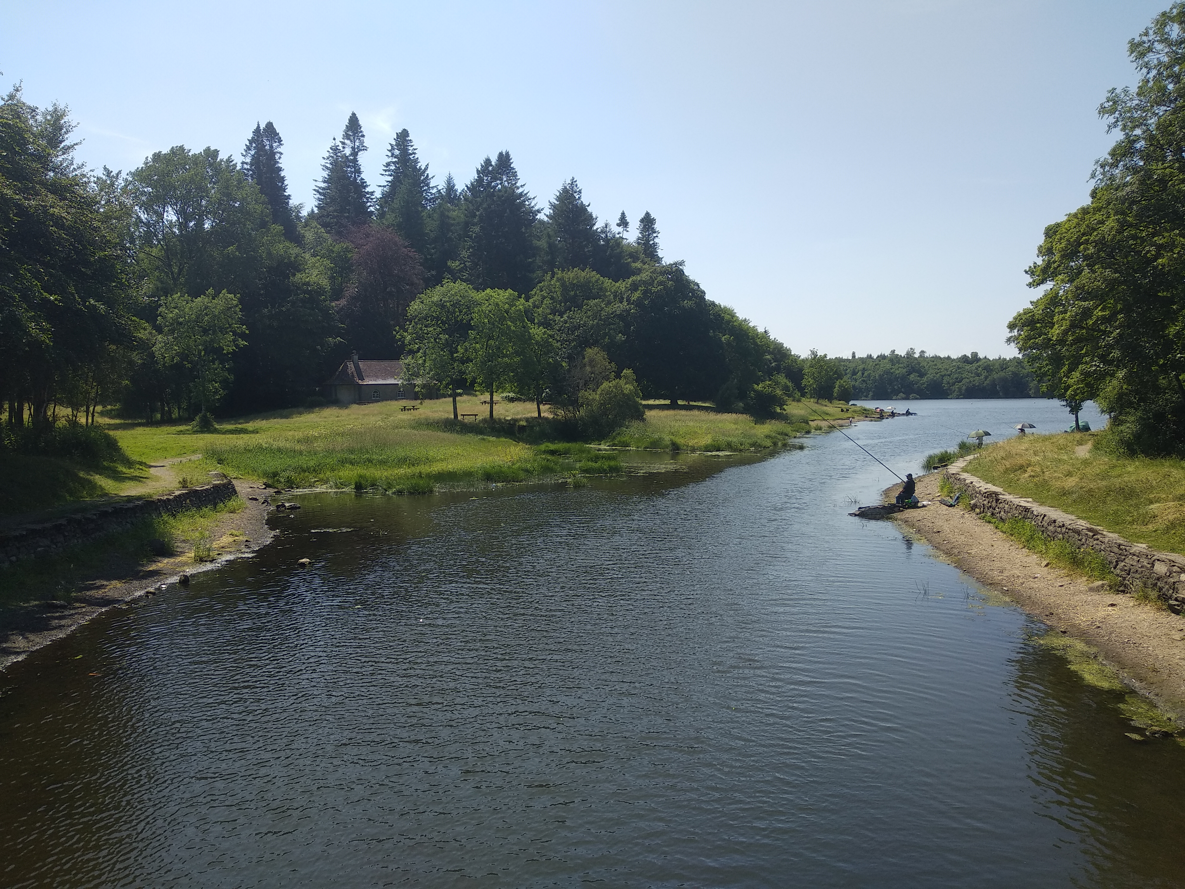 Killykeen, Co Cavan